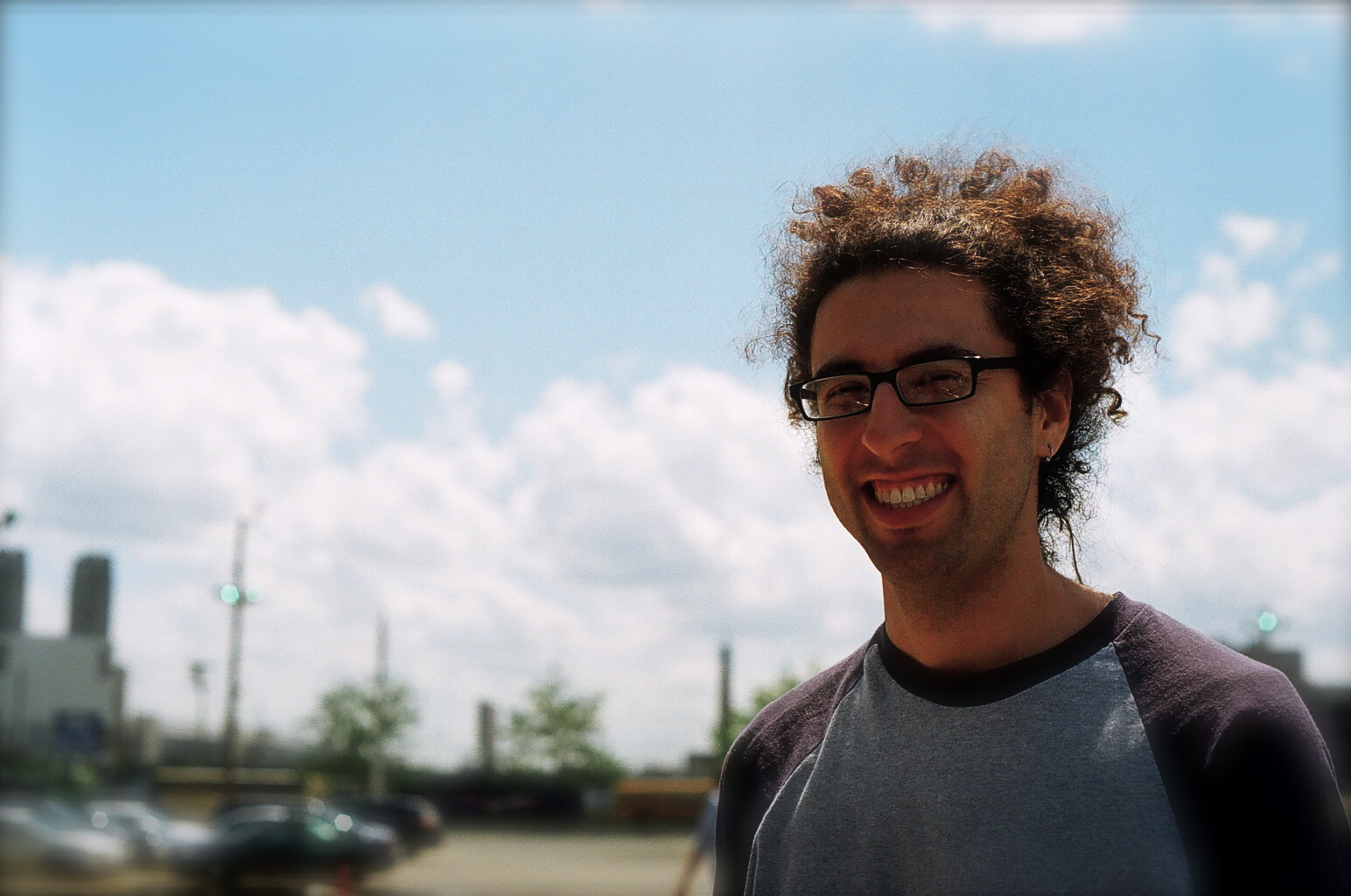 Zach Sherwin in 2009, when he performed as MC Mr. Napkins (image taken from Flickr)